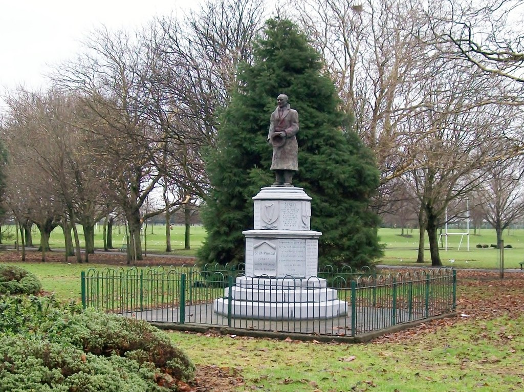 This is a statue of Sean Russell, the highly controversial Chief of Staff of the IRA (1938-40)in Fairview Park. Russell was a native of Fairview. Having taken the movement over in 1938 he led it from being anti-fascist organisation which had fought O'Duffy's Blueshirts on the streets of Dublin and Franco's Nationalists in Spain into one allied with the Nazis. Russell died in a German U-boat on his way back to Ireland in August 1940. In the early hours of January 1st 2005, the statue was beheaded and it remained headless until restored in 2009. The restored statue is said to be alarmed.